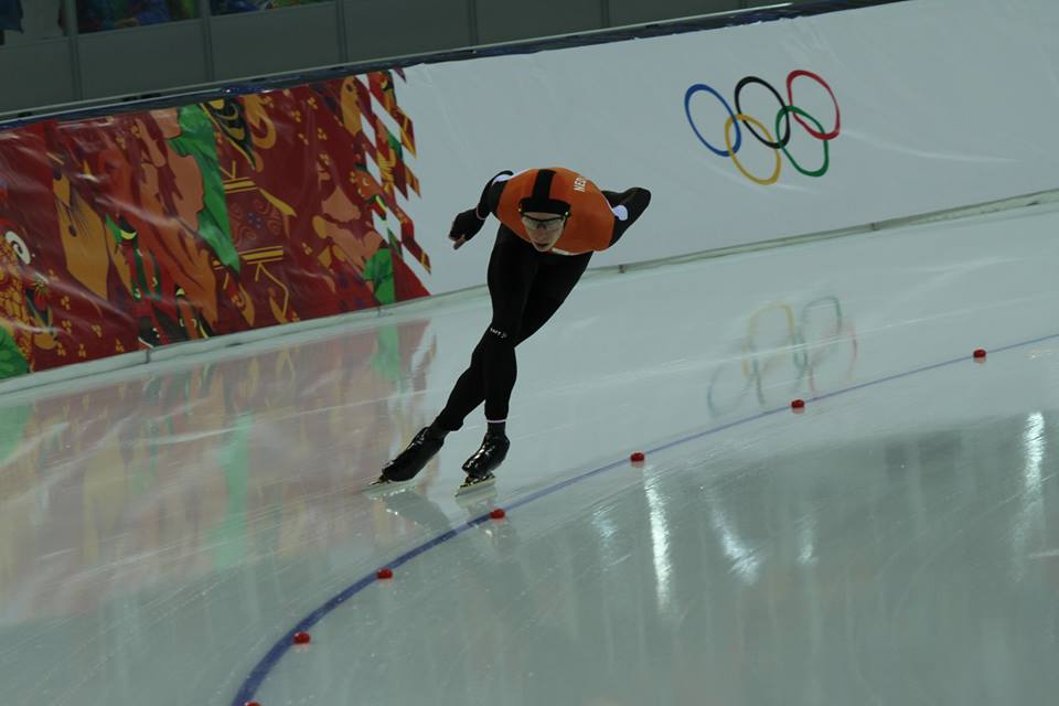 Men's 5000m, 2014 Winter Olympics, Jorrit Bergsma Bronze medalist